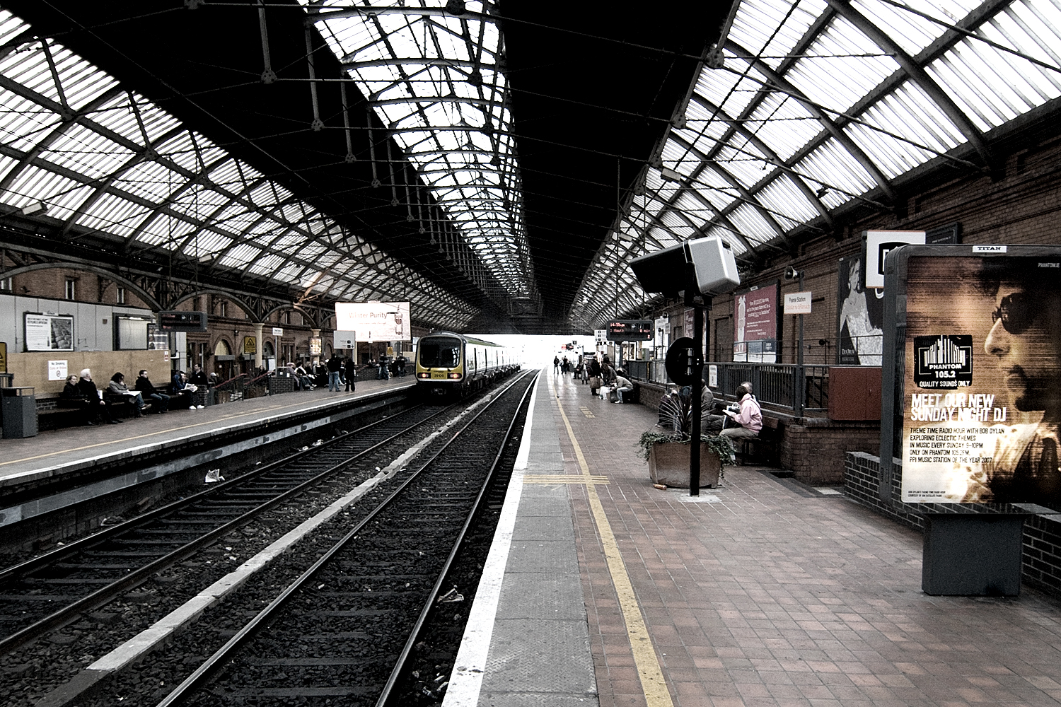 Pearse Station, Dublin